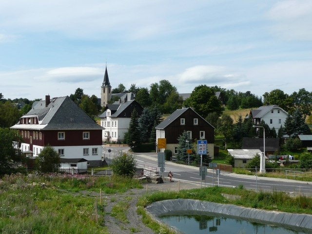 This image shows Deutscheinsiedel in the Ore Mountains.